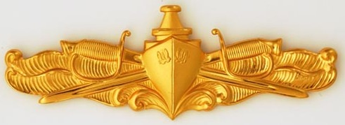 United States Navy Surface Warfare Officer badge